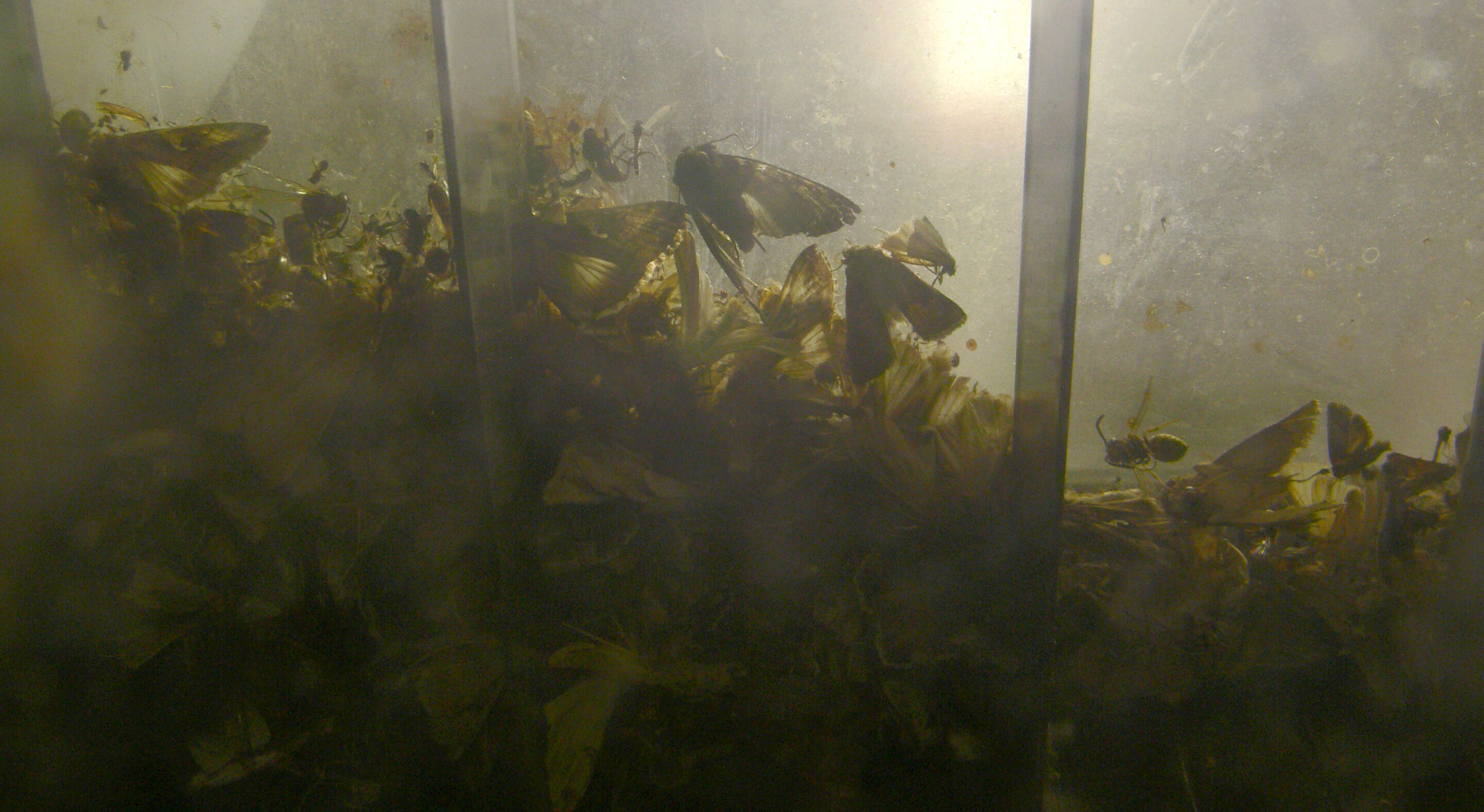 Dead insects trapped after being attracted by light in a lighting box hidden in the soil near a public monuments. This is an example of Ecological trap and of light pollution